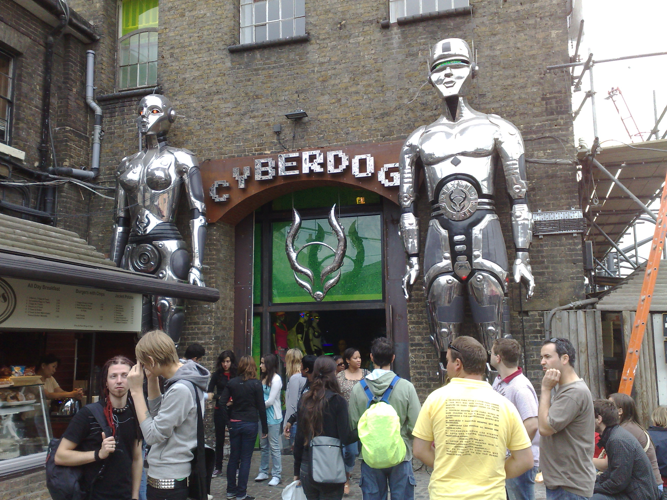 Front of the Cyberdog shop in Camden, London